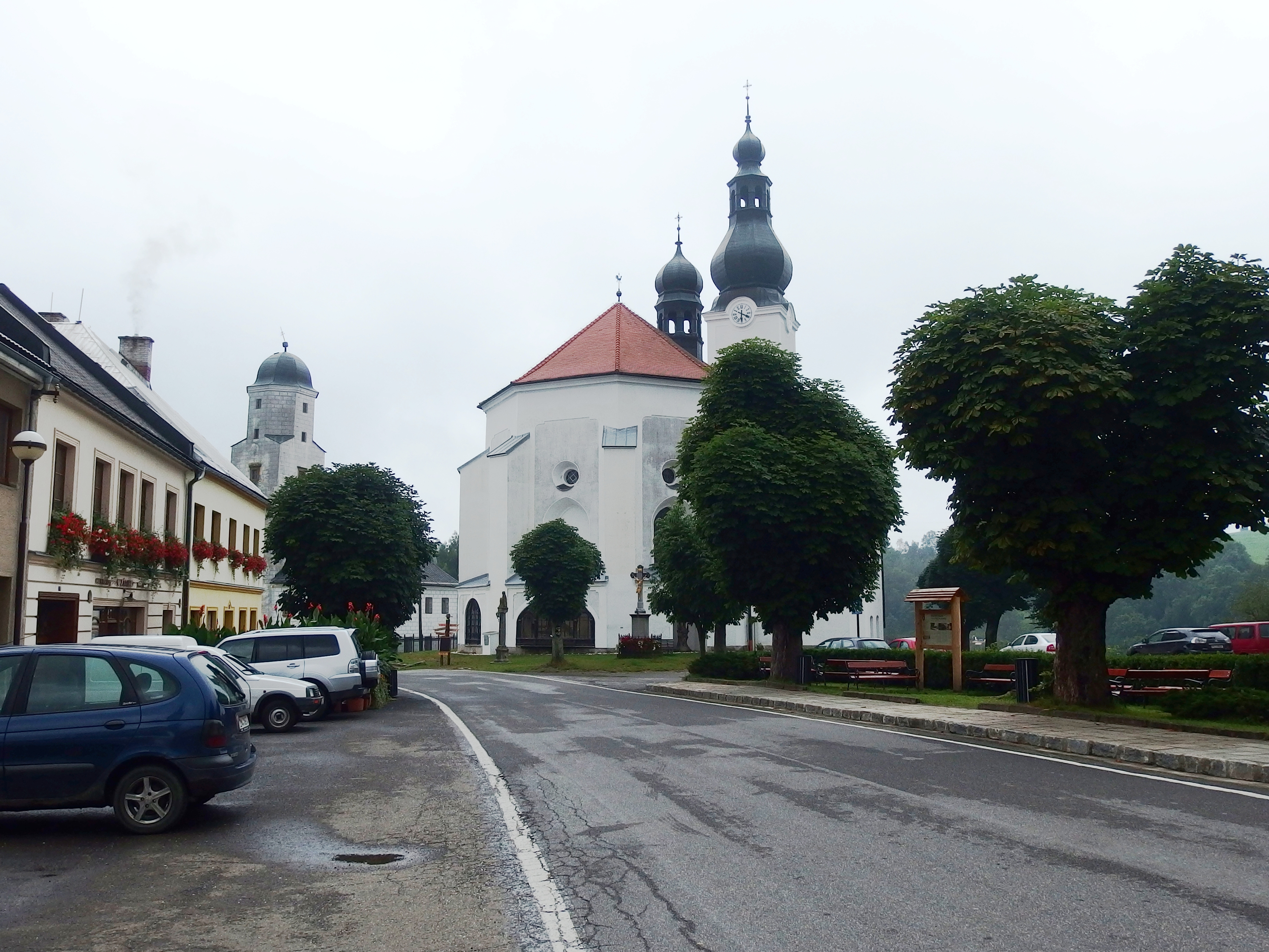 Branná, Šumperk District, Czech Republic.